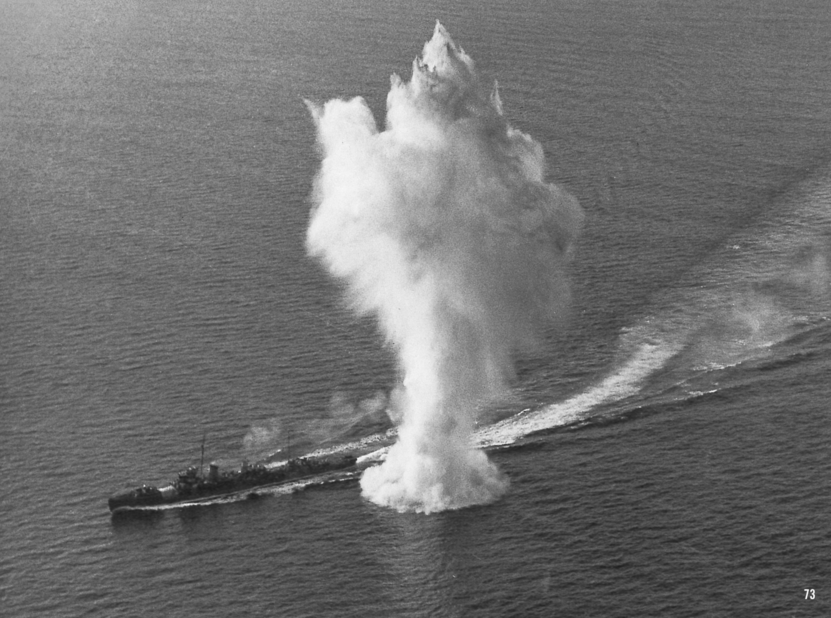 "Wakatake" under air attack by aircraft of Task Force 58 off the coast of Palau, March 30, 1944.